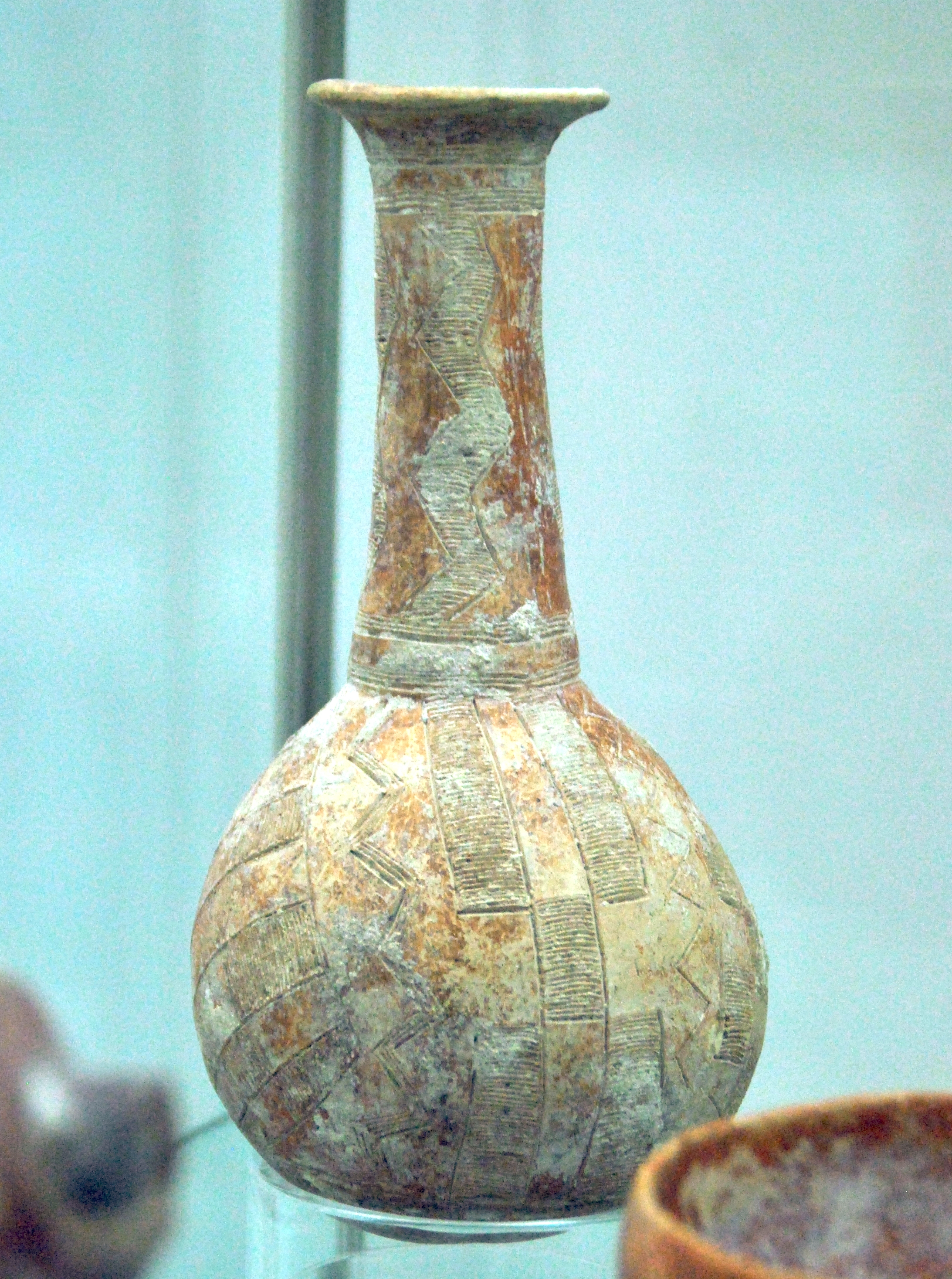 Cypriot vessel of the Red Polished Ware II-III, 2200-1700 BC; Antikensammlung Kiel, inventory number L 36.